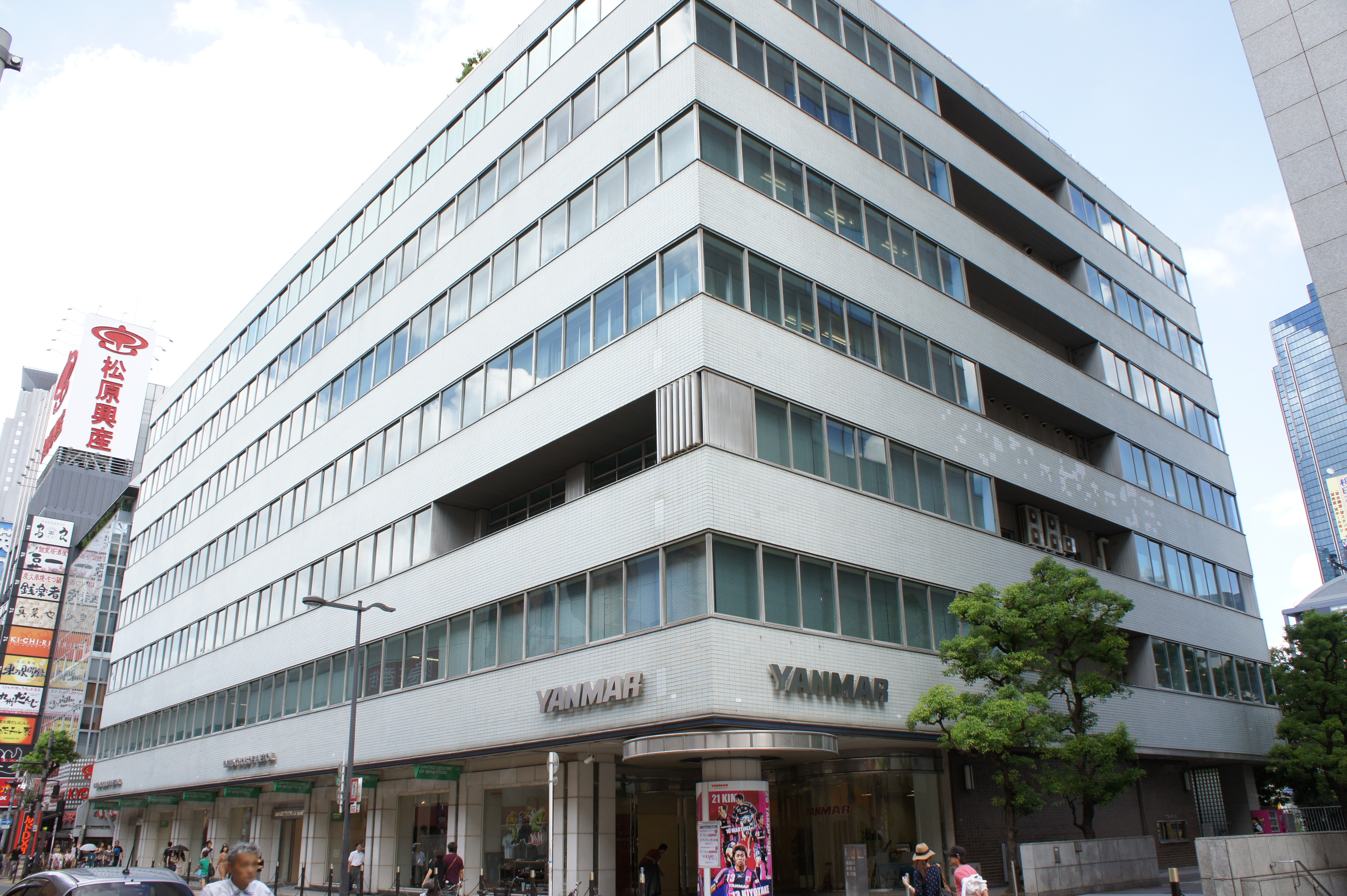 Former YANMAR Head Office,1-32 Chayamachi Kita-ku Osaka-City Osaka Japan.